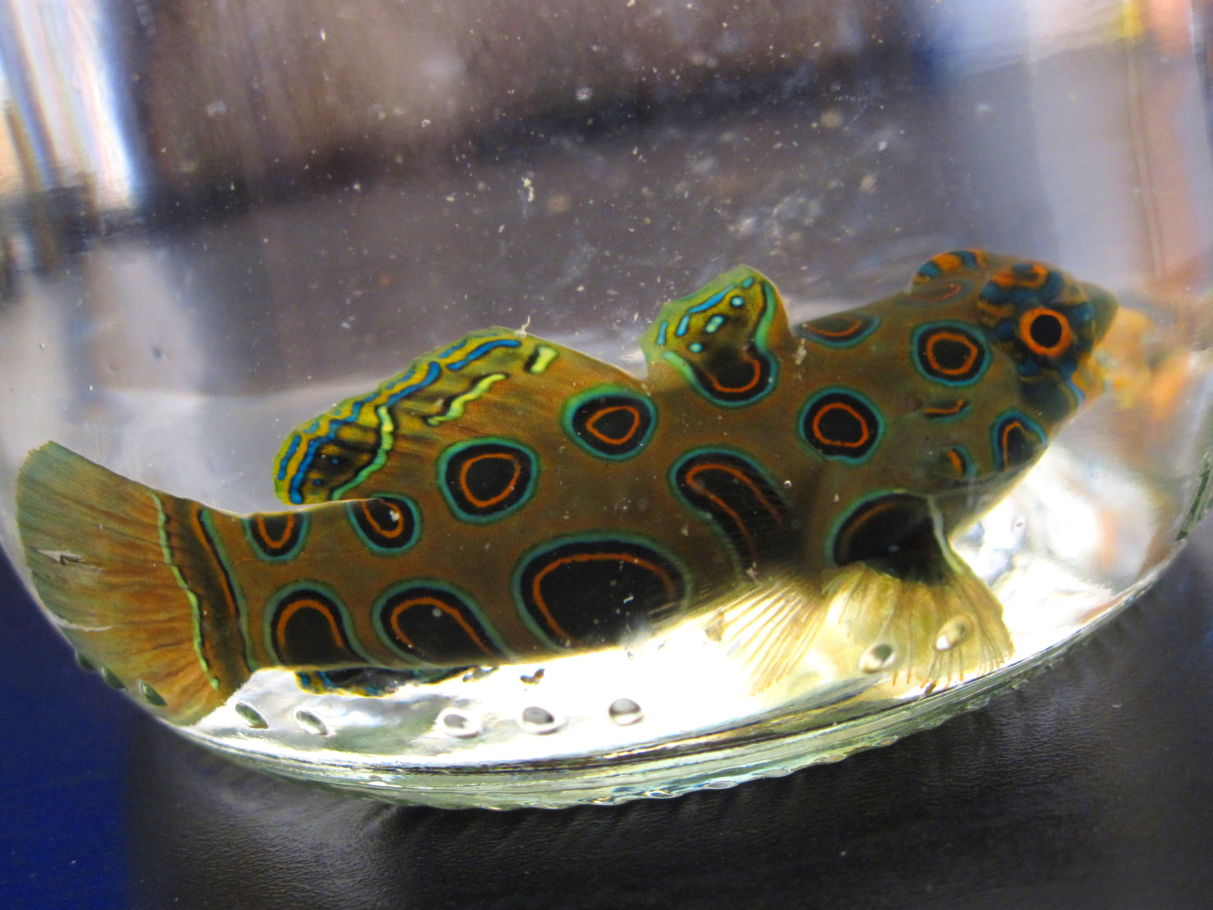 Spotted Mandarinfish, Synchiropus picturatus